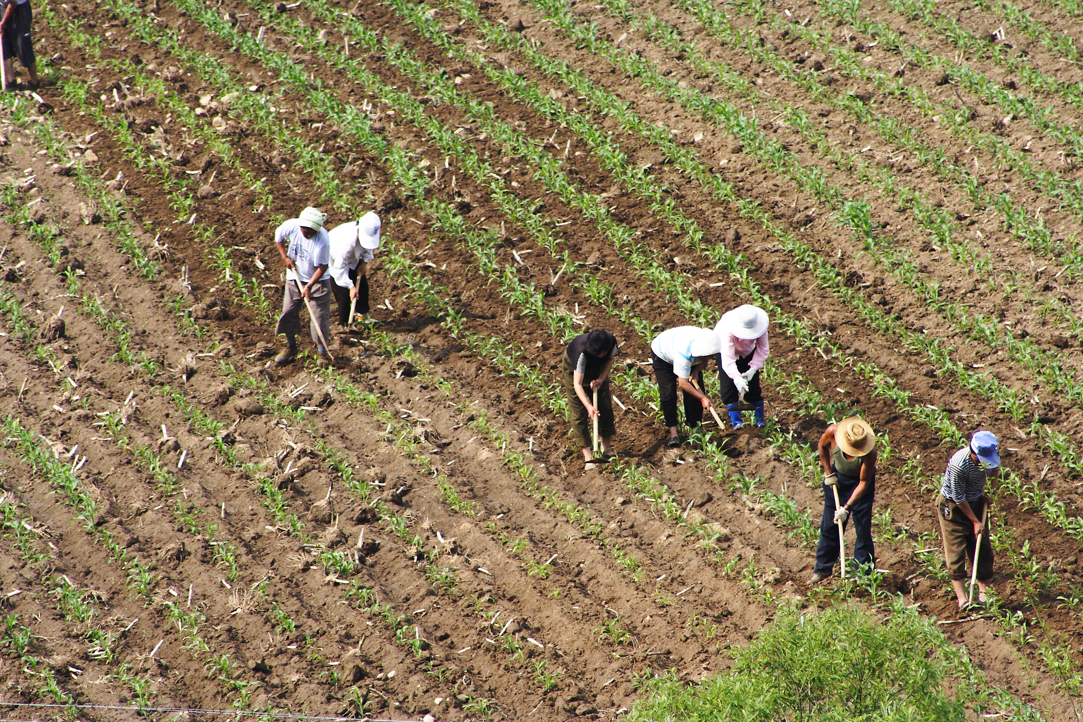 Contadini nordcoreani al lavoro Hushan Changcheng China, 2009-06-14